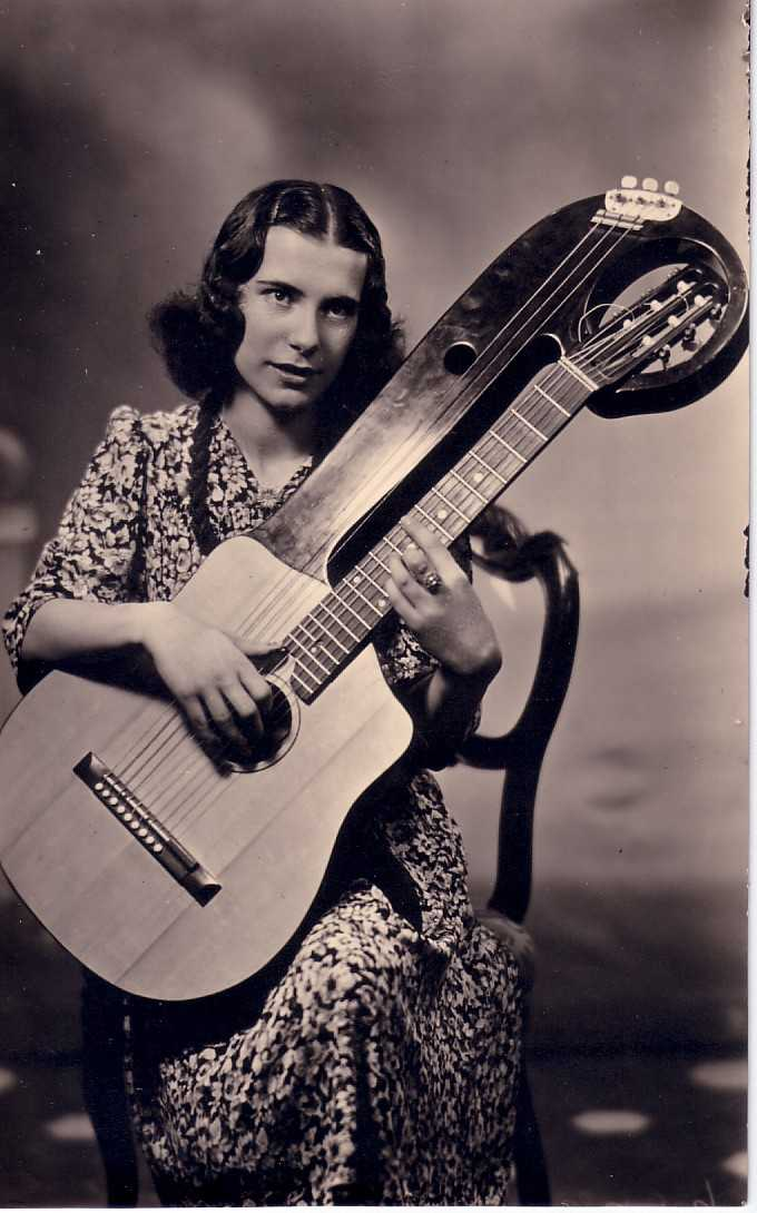 Carmen Lenzi Mozzani with a Luigi Mozzani "Chitarra Lyra"